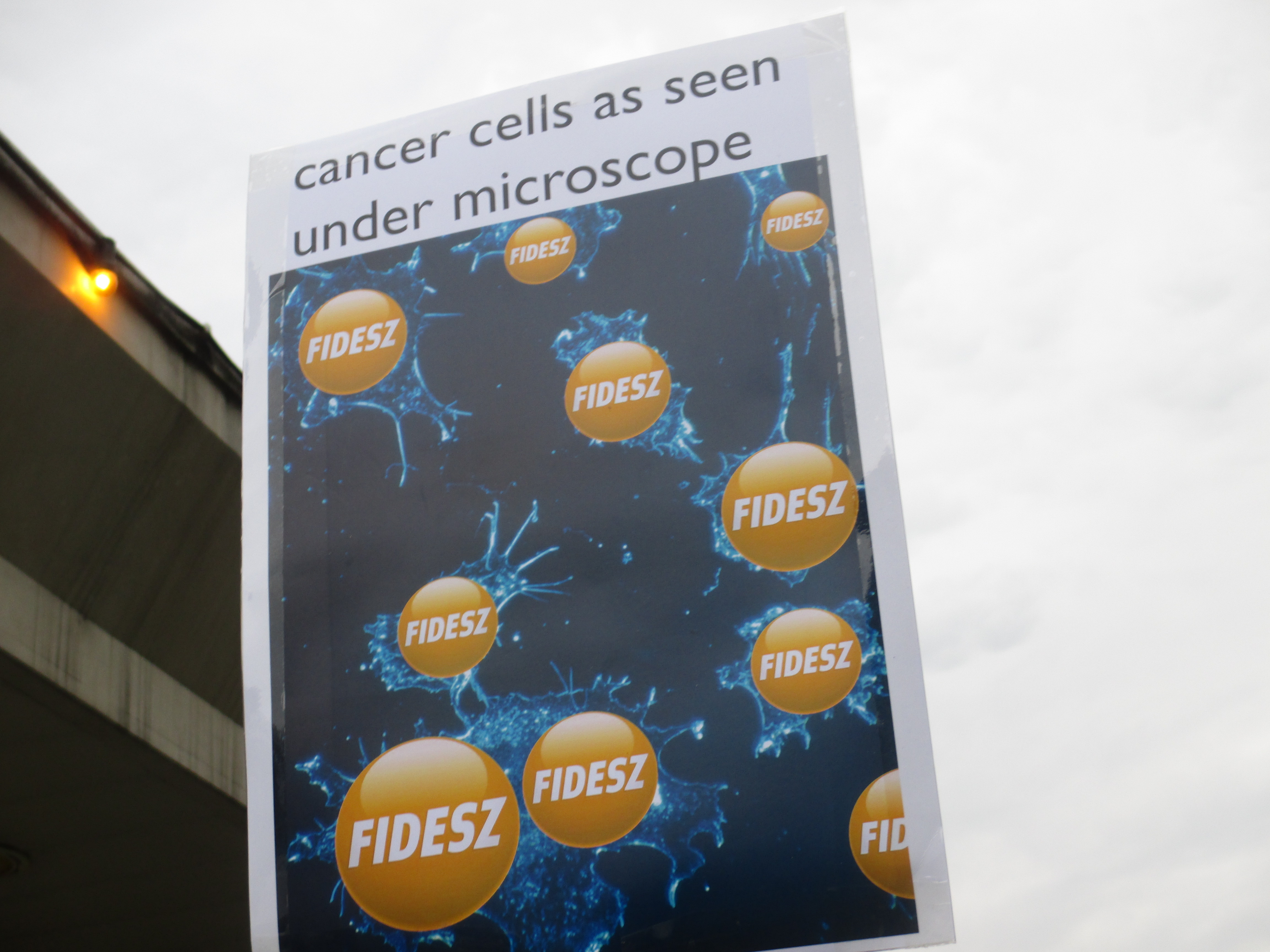 Demonstration